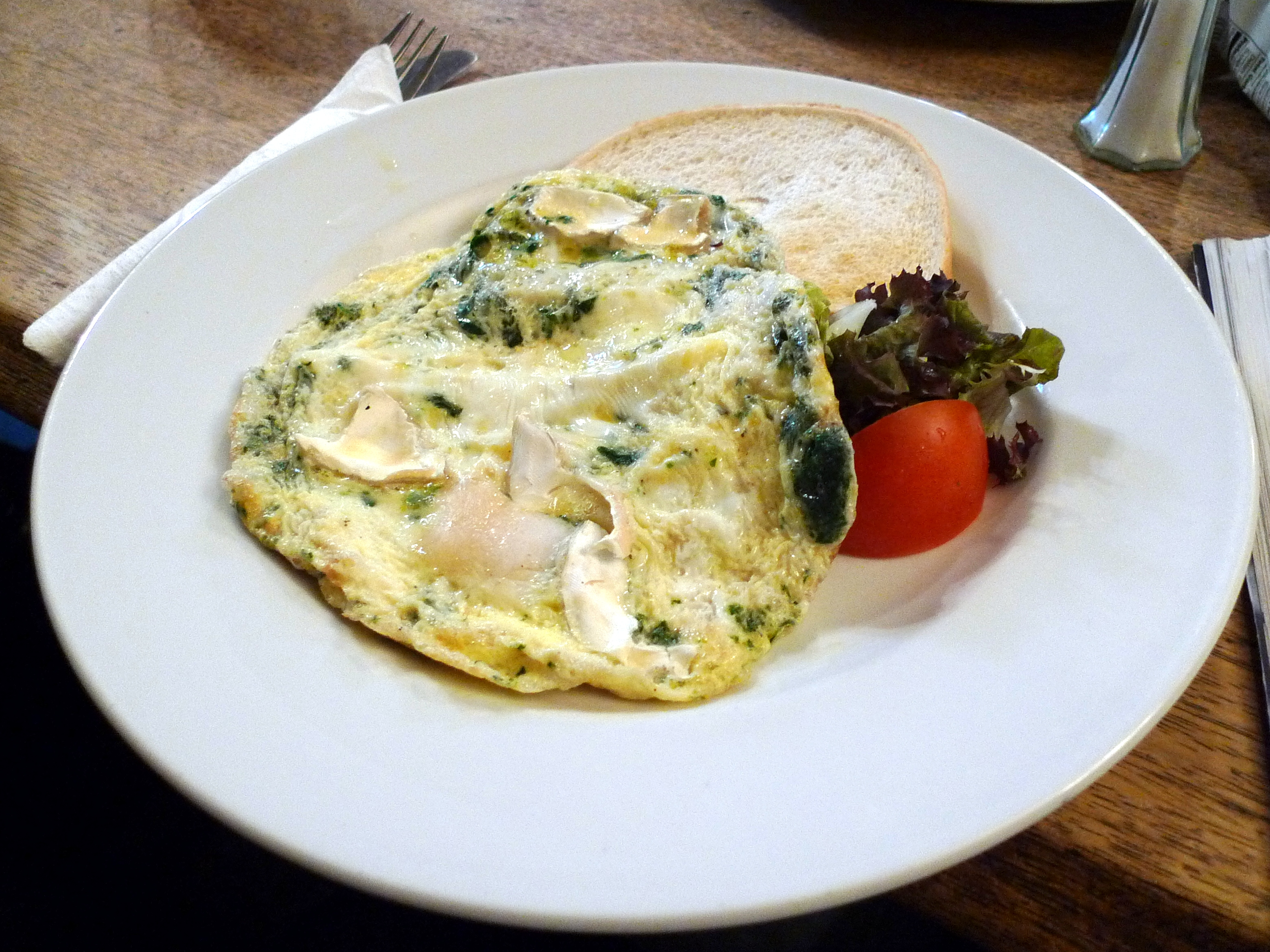 The goat's cheese and spinach omelette was excellent, the accompaniment a little bit rubbish (unbuttered toasted white bread, tiny bit of iceberg lettuce). At The Artillery Arms, Bunhill Row.